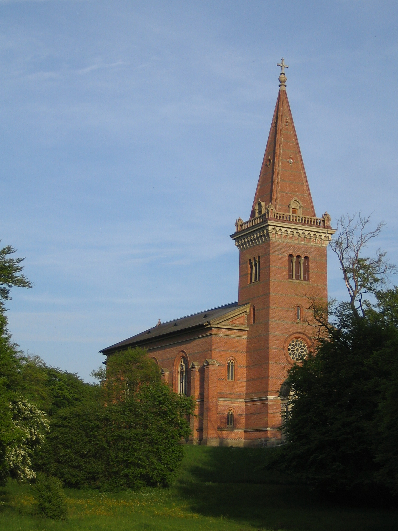 The church of Marsvinsholm, Skåne, Sweden